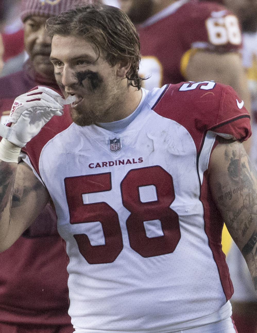 Cardinals at Redskins 12/17/17